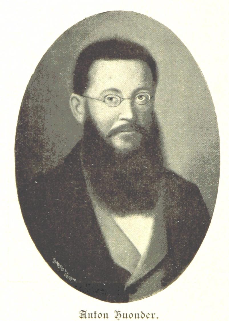 Anton Huonder Image taken from: Title: "Die Schweiz im neunzehnten Jahrhundert. Herausgegeben von schweizerischen Schriftstellern unter Leitung von P. Seippel" Author: SEIPPEL, Paul. Shelfmark: "British Library HMNTS 9305.h.2." Volume: 02 Page: 412 Place of Publishing: Lausanne Date of Publishing: 1899 Issuance: monographic Identifier: 003330970 Explore: Find this item in the British Library catalogue, 'Explore'. Download the PDF for this book (volume: 02) Image found on book scan 412 (NB not necessarily a page number) Download the OCR-derived text for this volume: (plain text) or (json) Click here to see all the illustrations in this book and click here to browse other illustrations published in books in the same year.